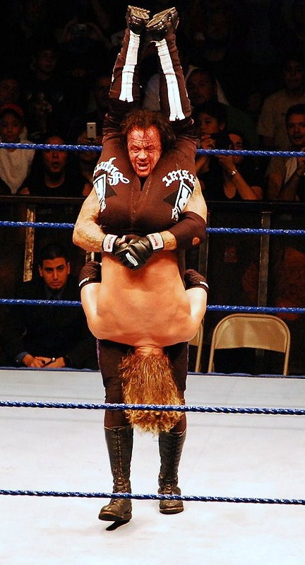 The Undertaker performing a Tombstone piledriver on Edge.